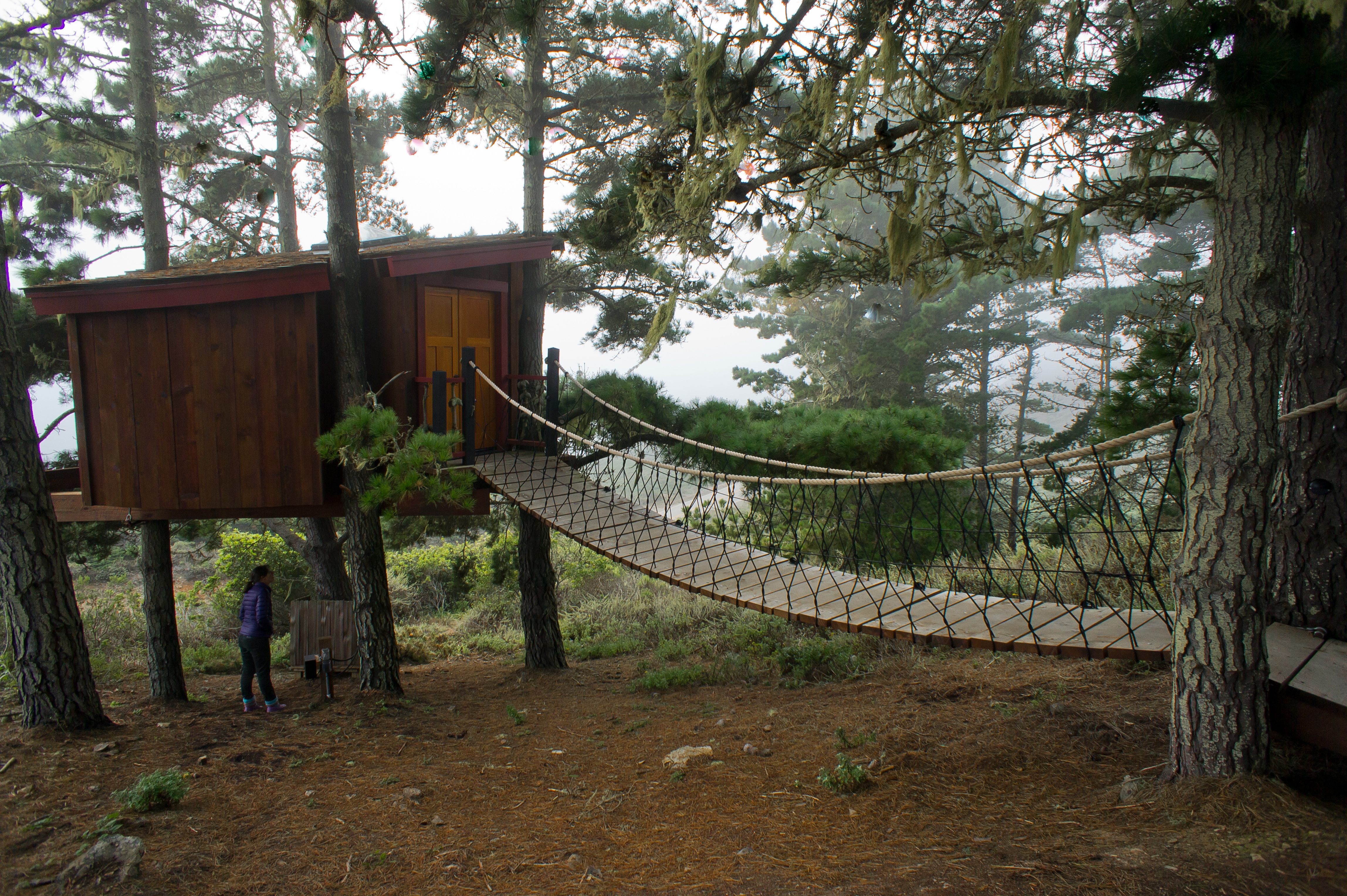 Treehouse at Treebones, campsite/resort, big sur, california